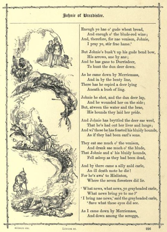 Illustration to Johnie of Breadislee, p. 226 in The Book of British Ballads (1842), edited by Samuel Carter Hall.